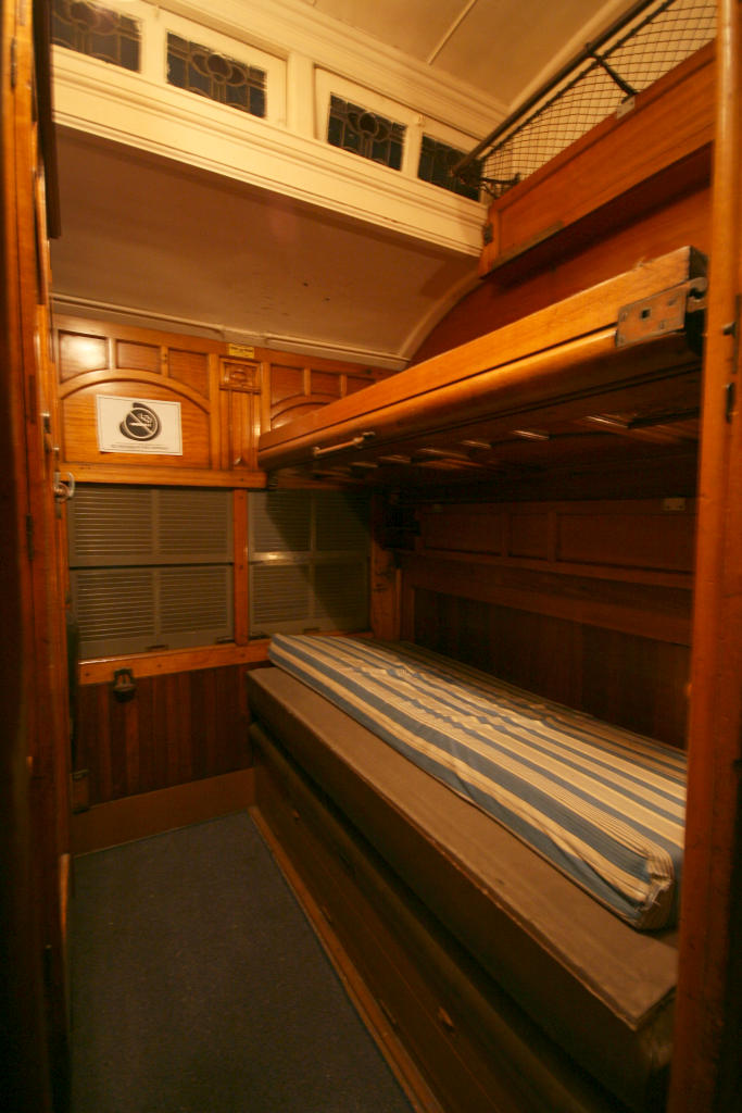 Interior of E type carriage sleeping car Acheron, beds in night-time position